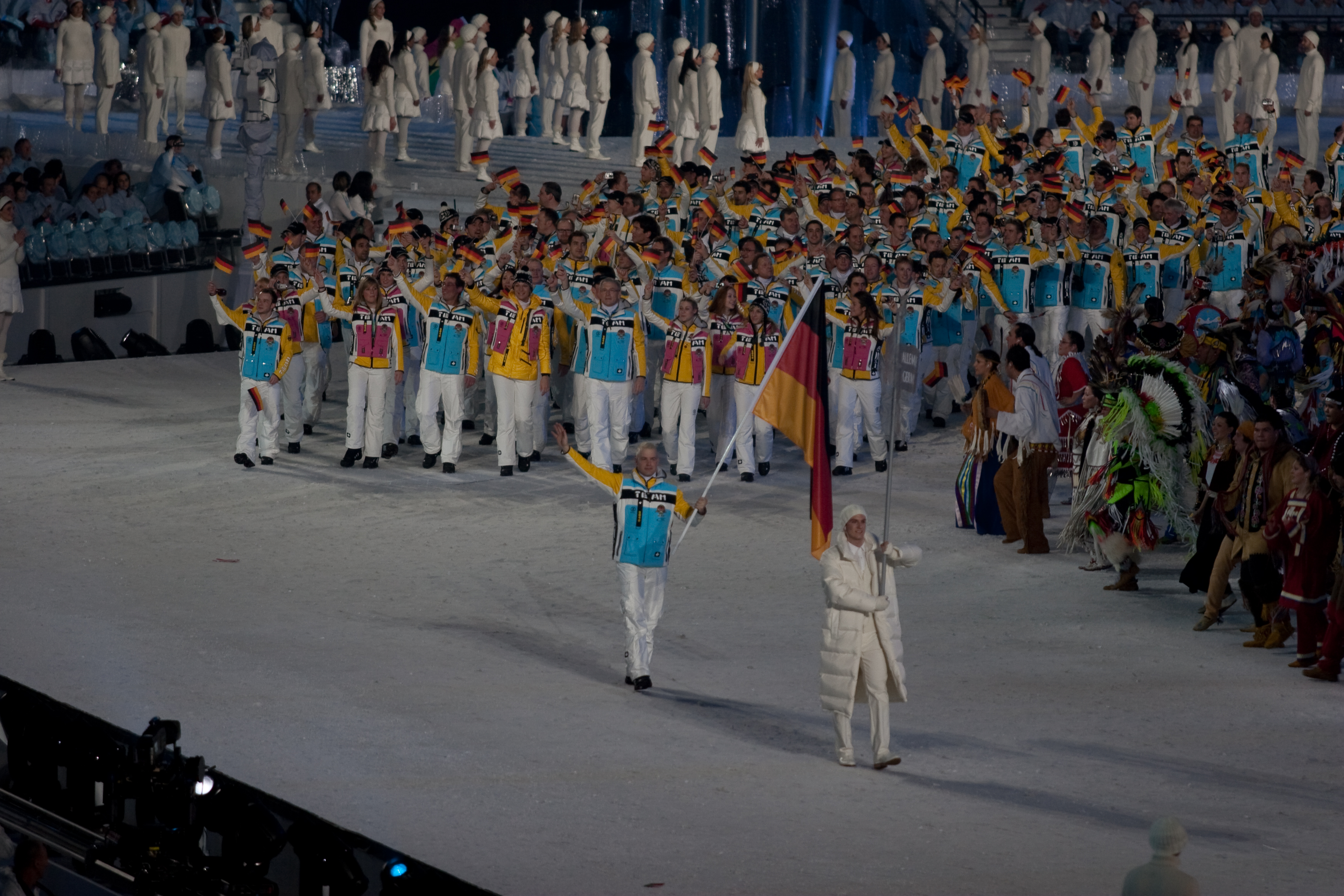 The athletes from Germany entering the stadium at the opening ceremonies of the 2010 Winter Olympics